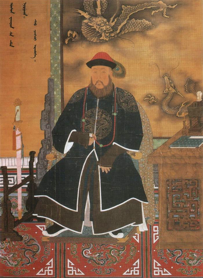 Dorgon (Manchu: ; simplified